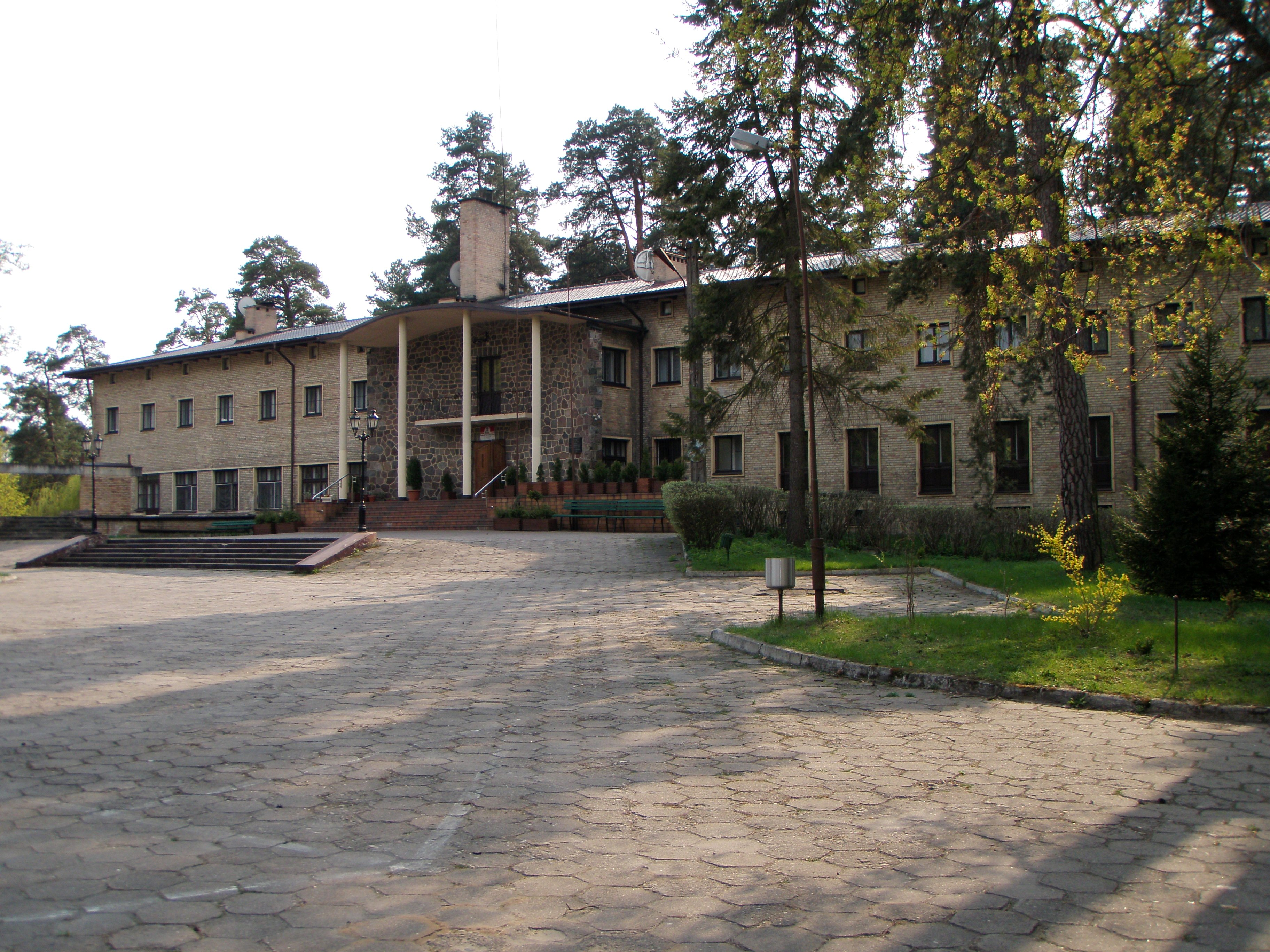 Dom Turysty (Tourist House) in Augustów, Poland (currently the "Hetman" Hotel), built in 1939, designed by Maciej Nowicki.